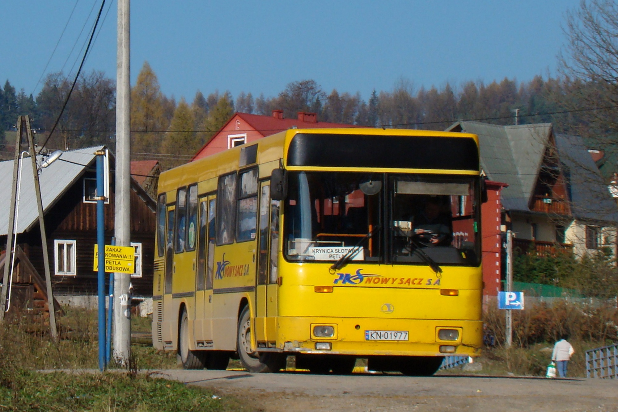 Autosan A1010M Medium bus (reg. KN 01977) in Krynica-Zdrój, Poland. Built 2000. PKS Nowy Sącz operator.